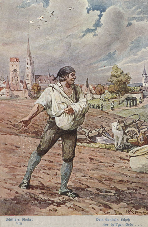 illustration of Friedrich Schiller's "Song of the Bell" (German: "Das Lied von der Glocke")